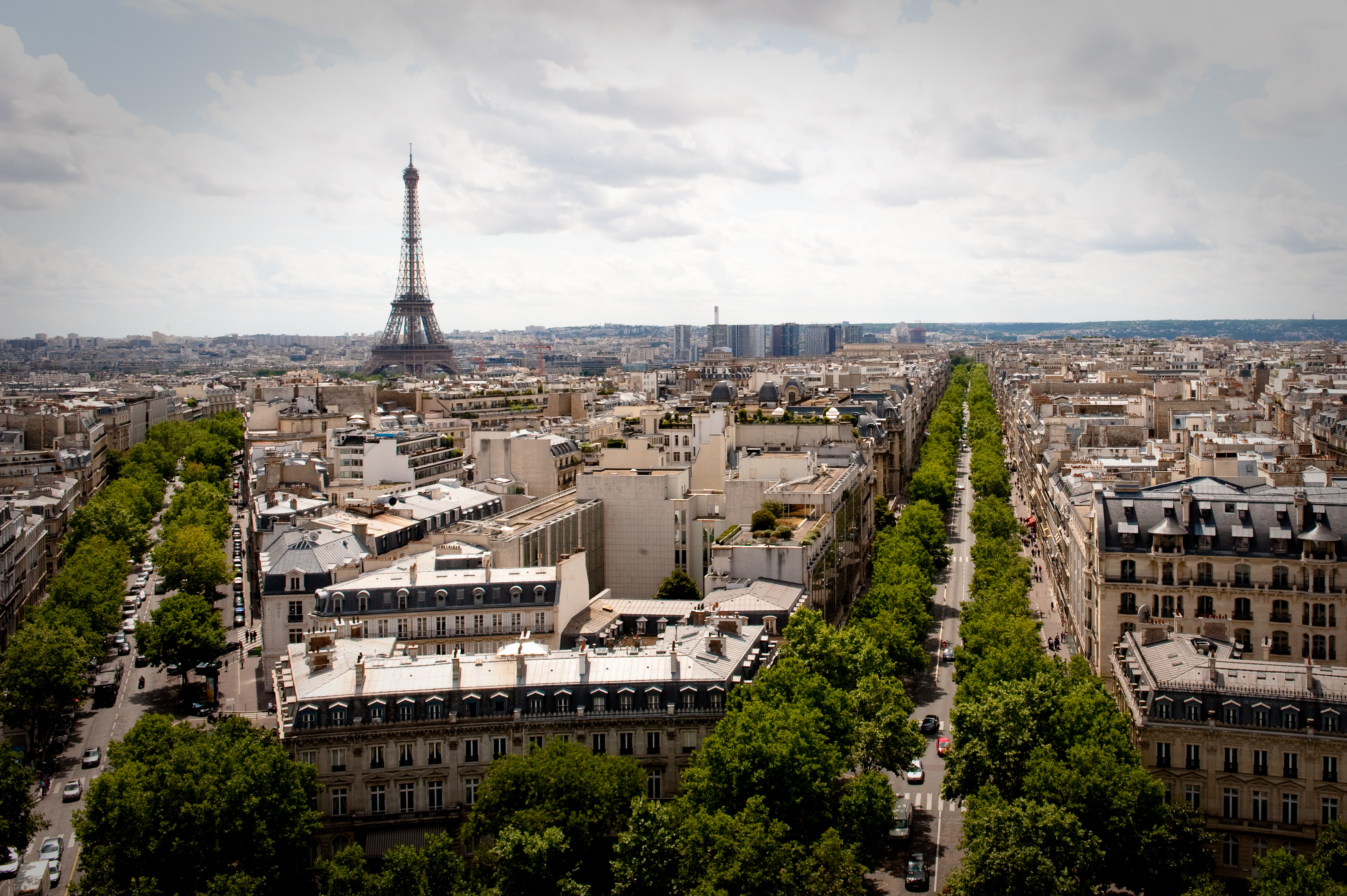 Eiffel Tower July 24, 2009